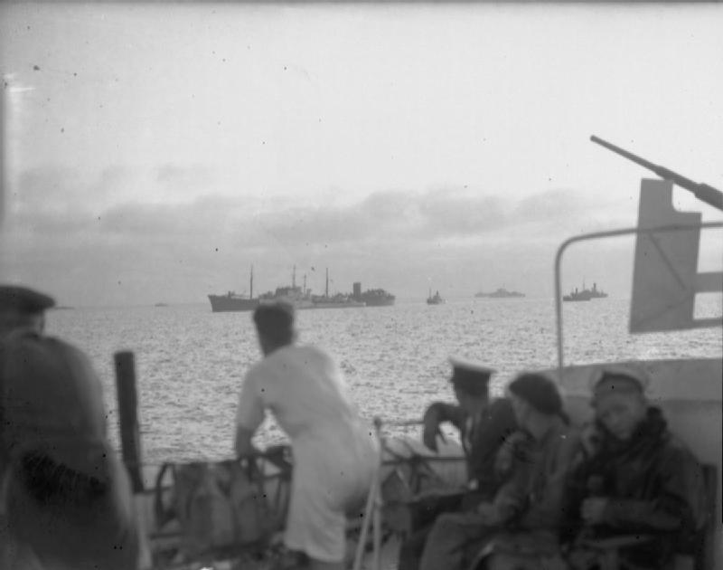 The arrival of the OHIO at Malta: The destroyer LEDBURY alongside the damaged tanker OHIO. OHIO's structure had been so weakened by repeated attacks that she was incapable of steaming on her own and needed a destroyer on either side to support her.